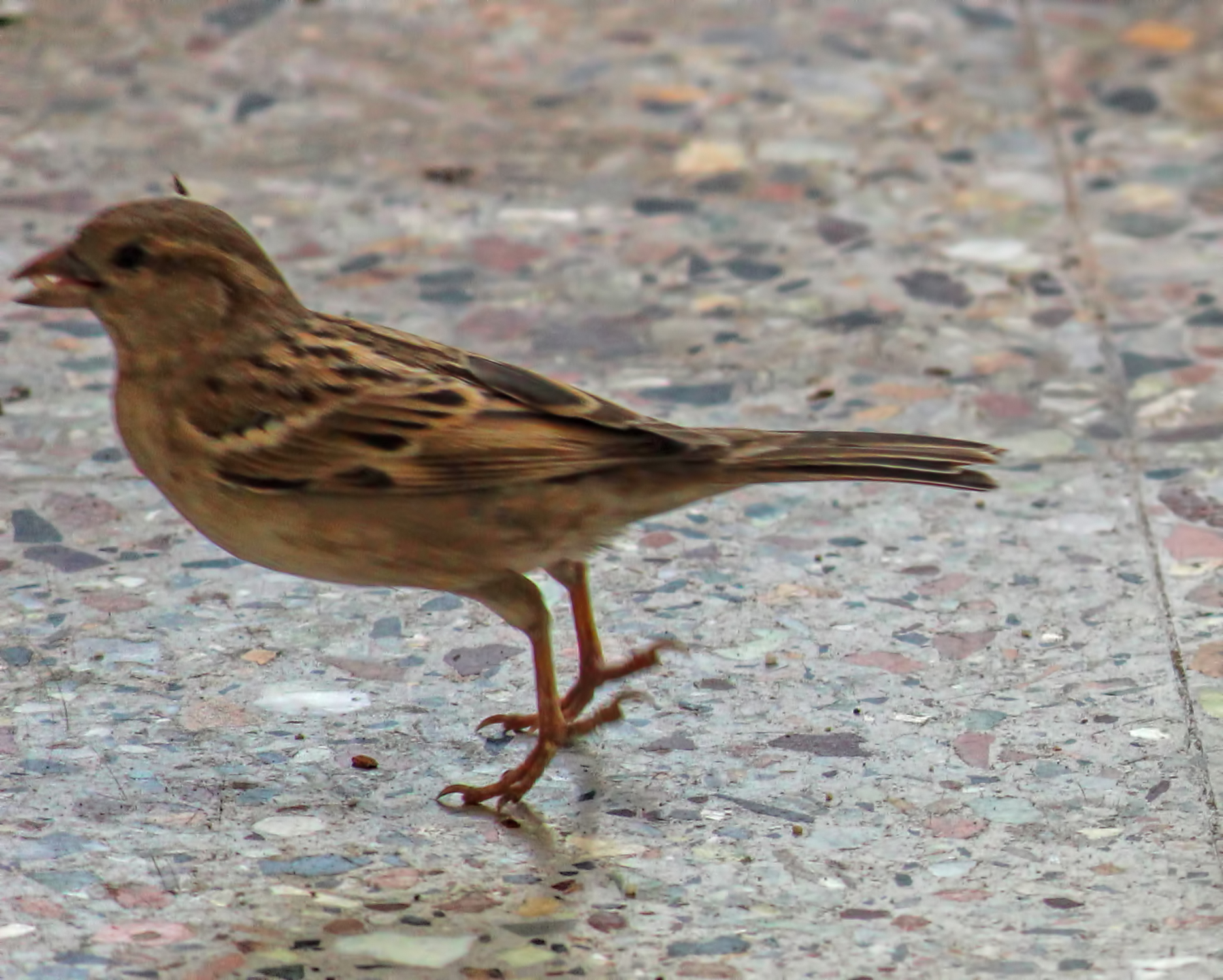 Hopping movements of a house sparrow